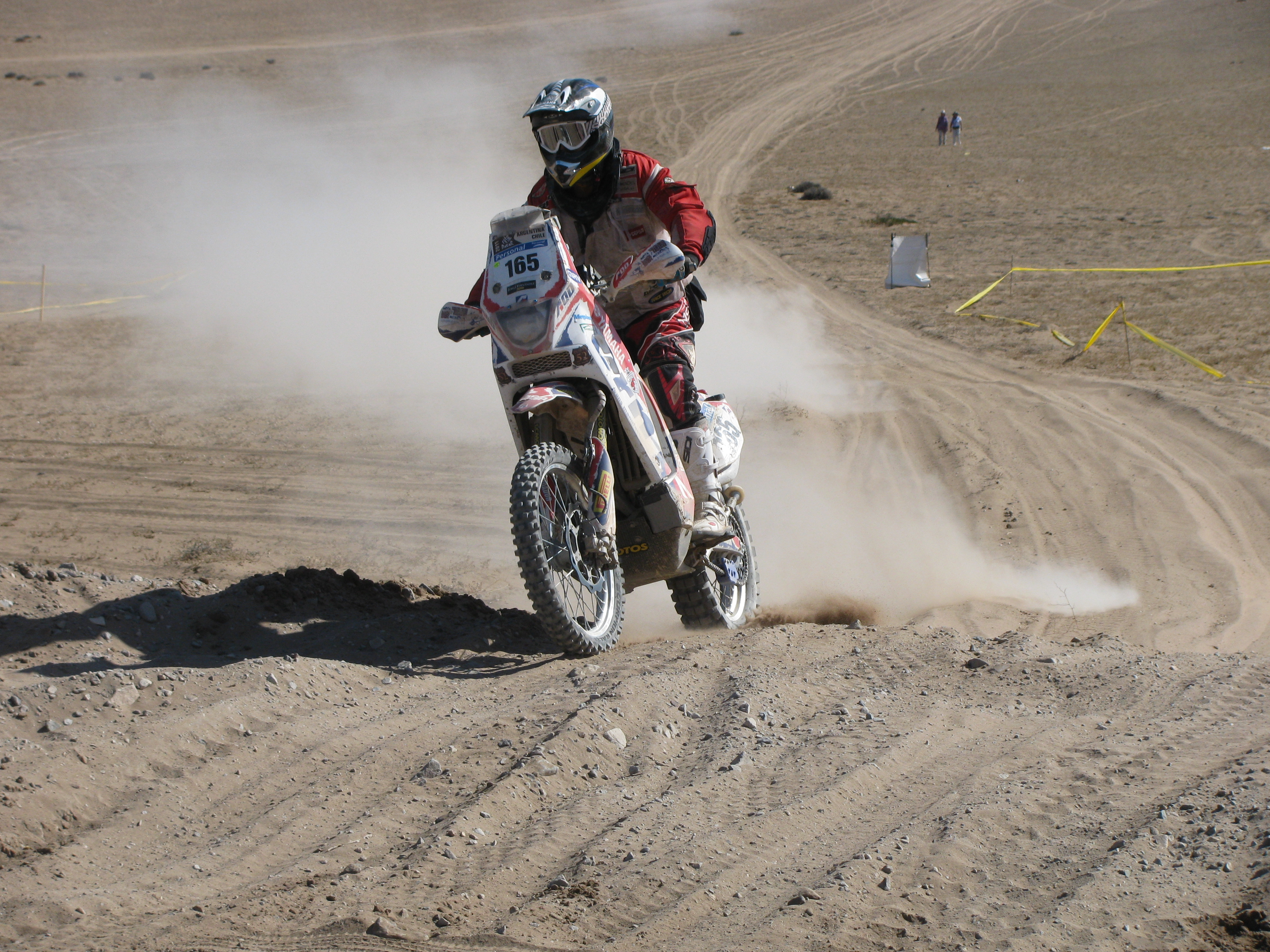 Fausto Mota, Portugal, Yamaha WRF 450, Buenos Aires - Chile Dakar Rally 2011.